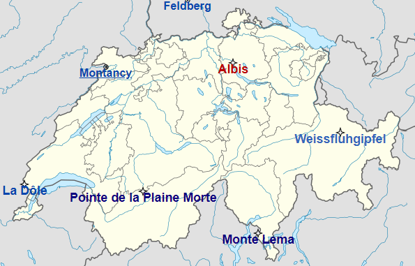 Weatehr radar sites in Switzerland using Swiss map from Commons and data from MeteoSwiss. Weather radar Montancy (France) and Felberg (Germany) are shown too.